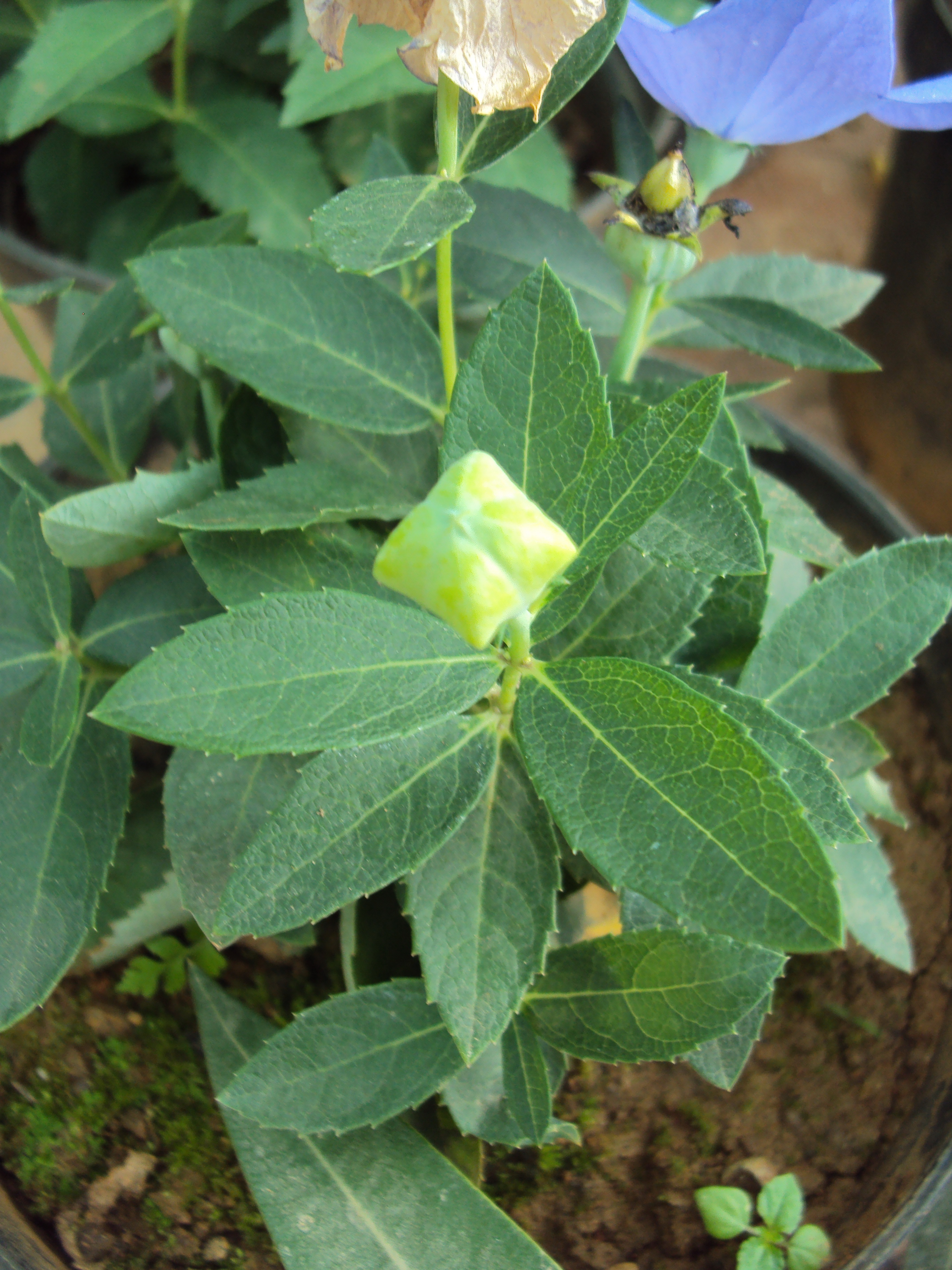 Flowers - Uncategorised Garden plants